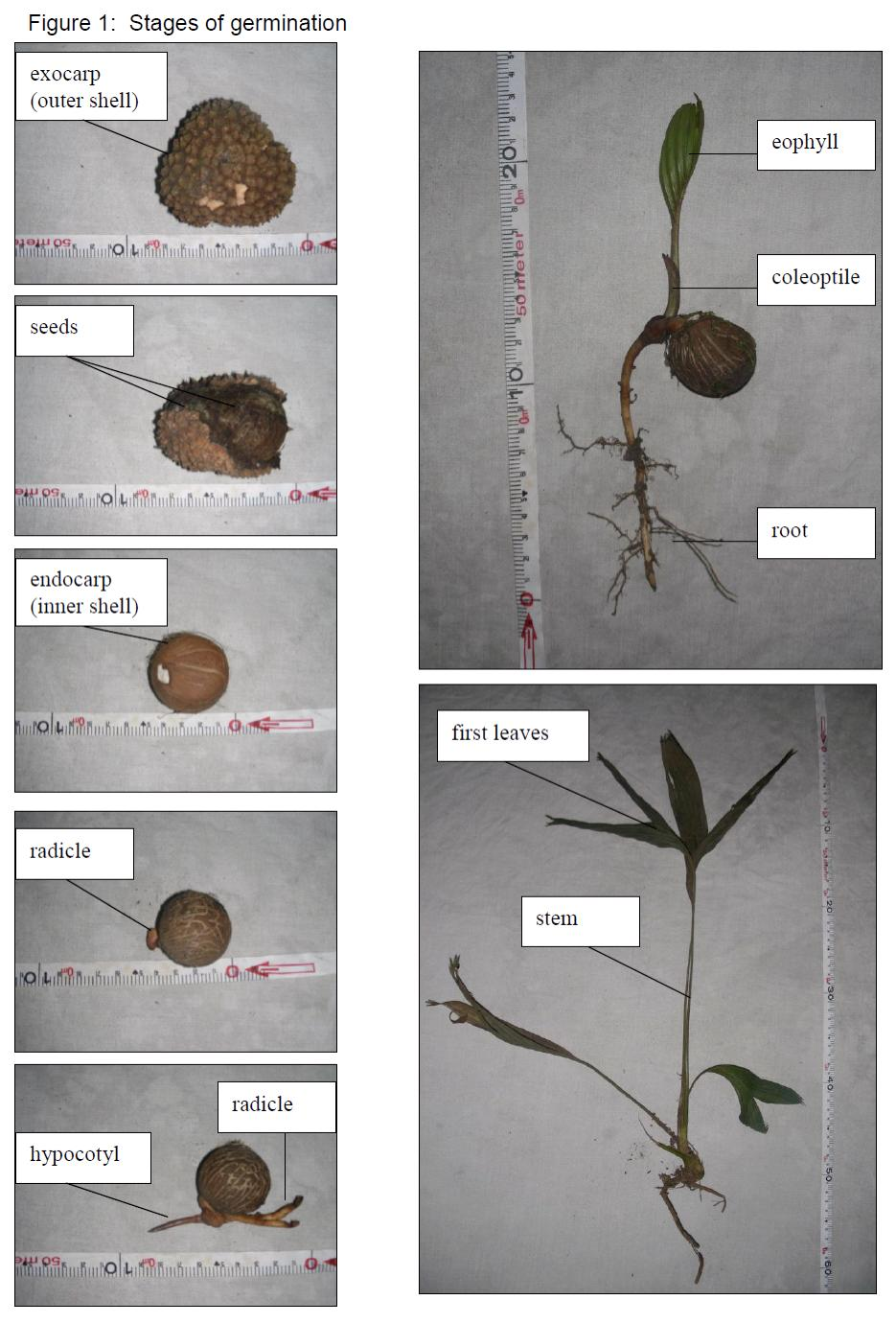 Various stages of germination of Manicaria saccifera seeds